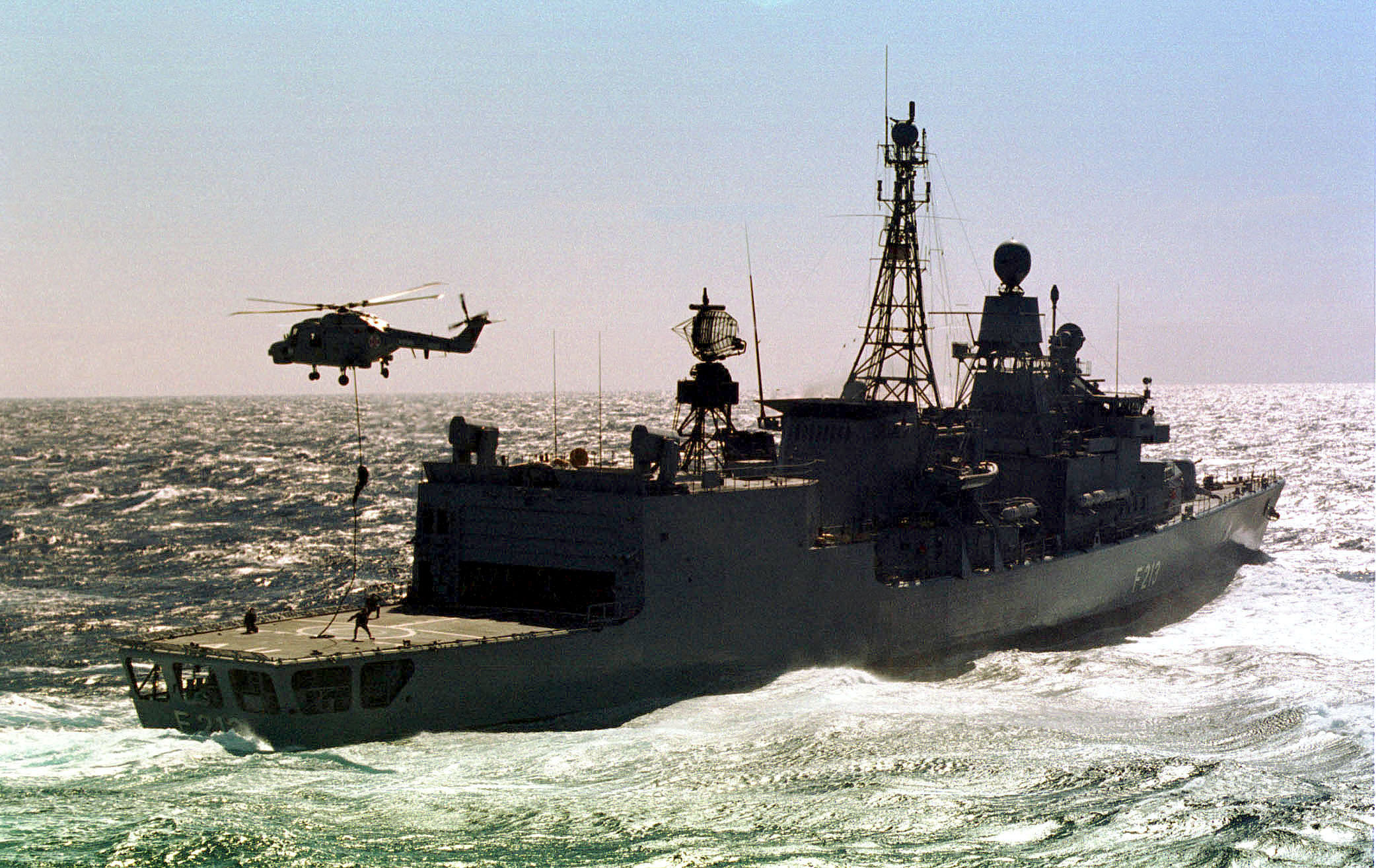 Portuguese Marines fastrope from a Portuguese Lynx Mk-95 helicopter to the flight deck of the German, Bremen Class Frigate, FGS AUGSBURG (F 213), during a simulated force boarding on March 12th, 1998. The Marines, from the 1st Marine Battalion, are operating off the Portuguese Vasco de Gama Class Frigate, NRP VASCO DE GAMA (F 330) (Not shown), which is operating with other NATO navy ships (Not shown) off the coast of Portugal during exercise Strong Resolve 98, Crisis South.